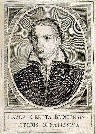 postum Portrait of Laura Cereta from 1640